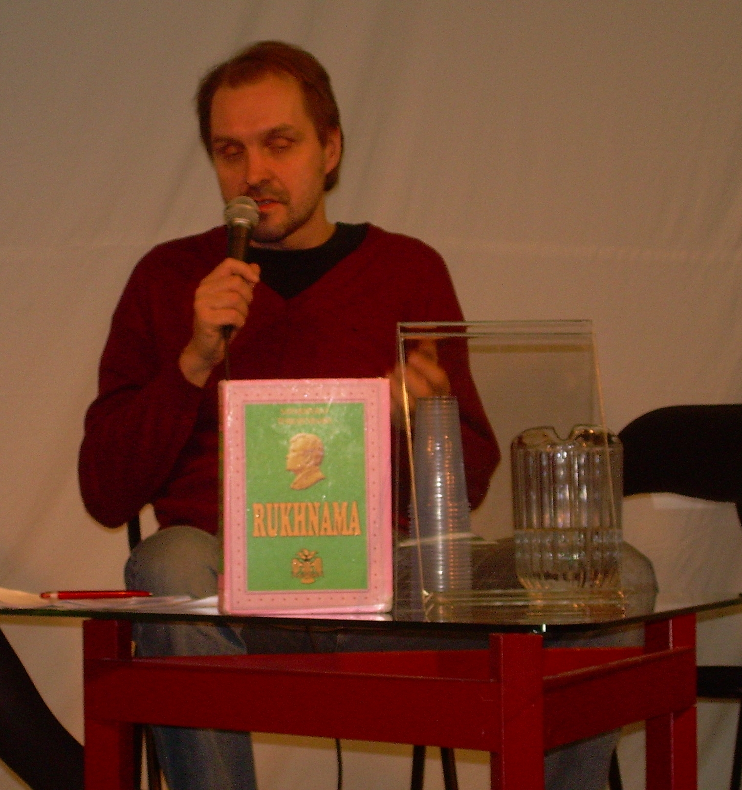 Finnish documentarist Arto Halonen at the Turku International Book Fair.